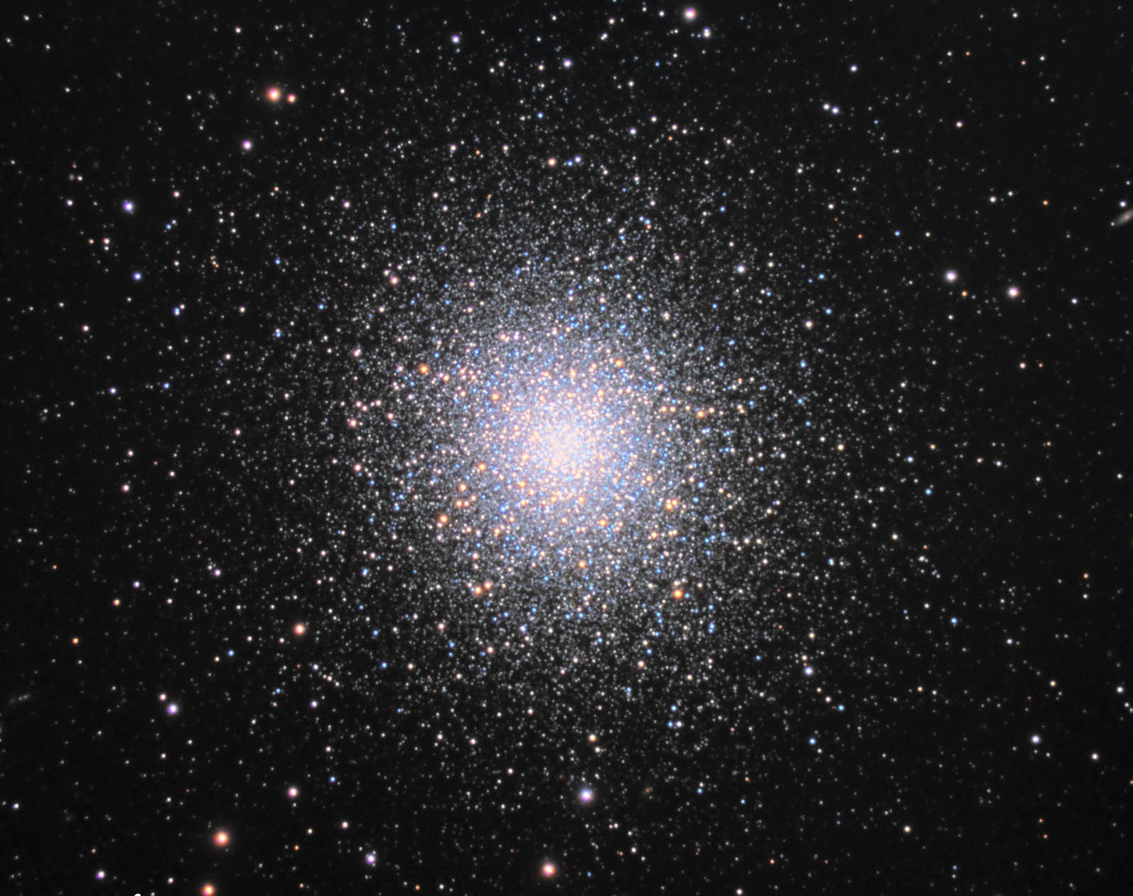 M13 Taken from Eastern North Carolina